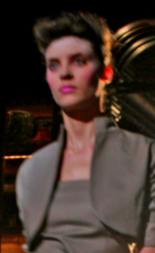 Alison Nix modeling in Ruffian spring 2008 show, New York Fashion Week.